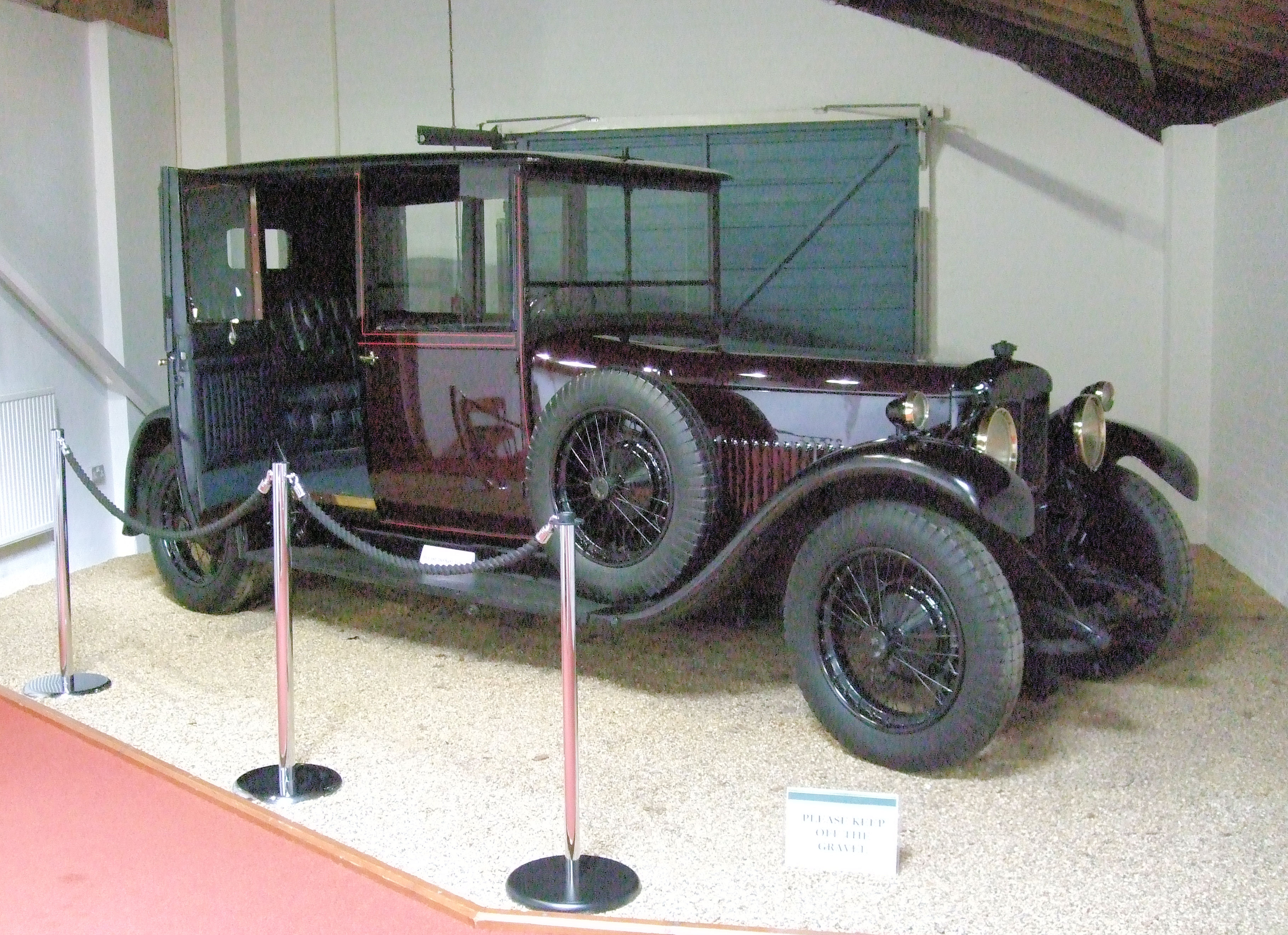 Former Royal car on display at Sandringham